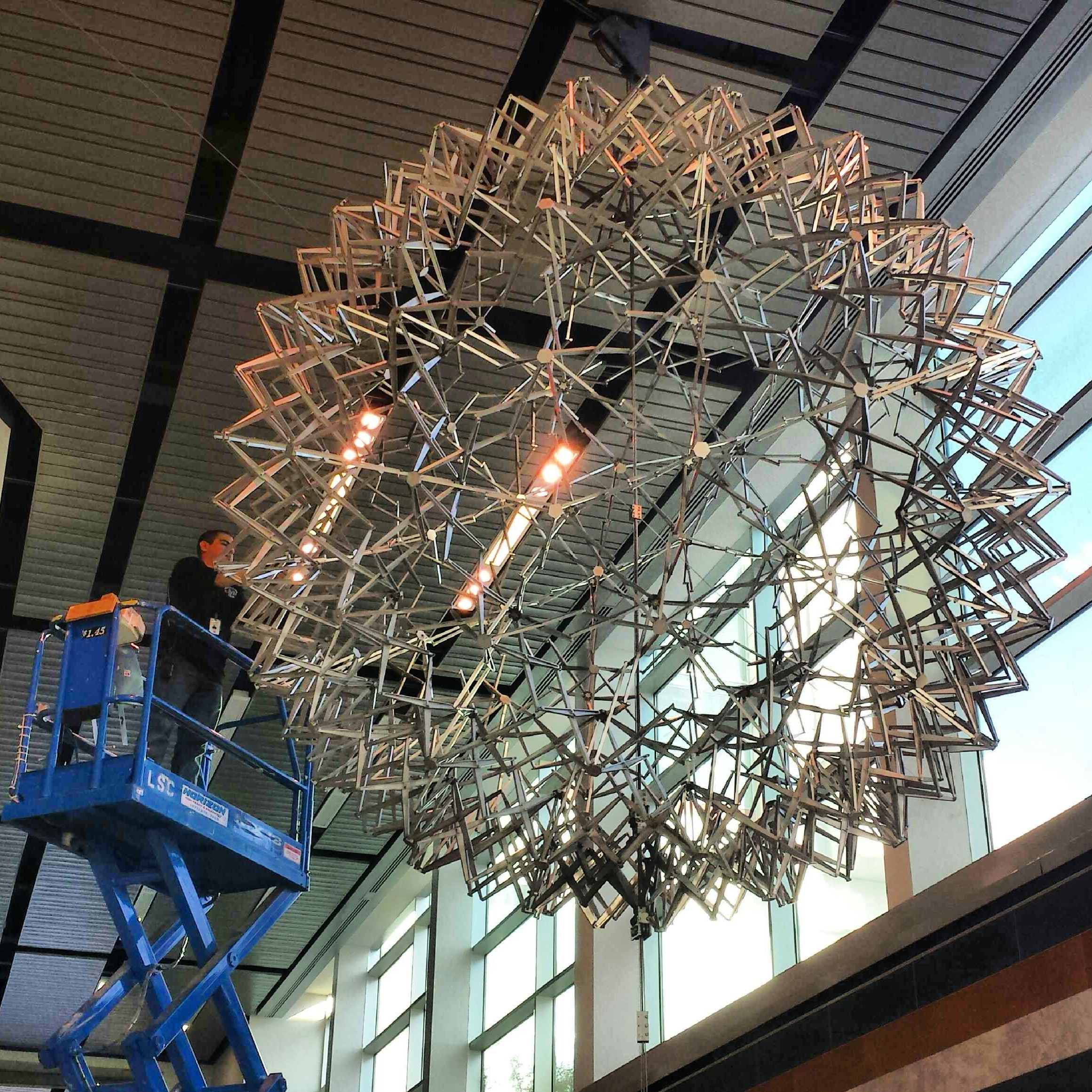 The Hoberman Sphere, the original and largest of its kind, undergoing maintenance at Liberty Science Center in Jersey City, NJ.